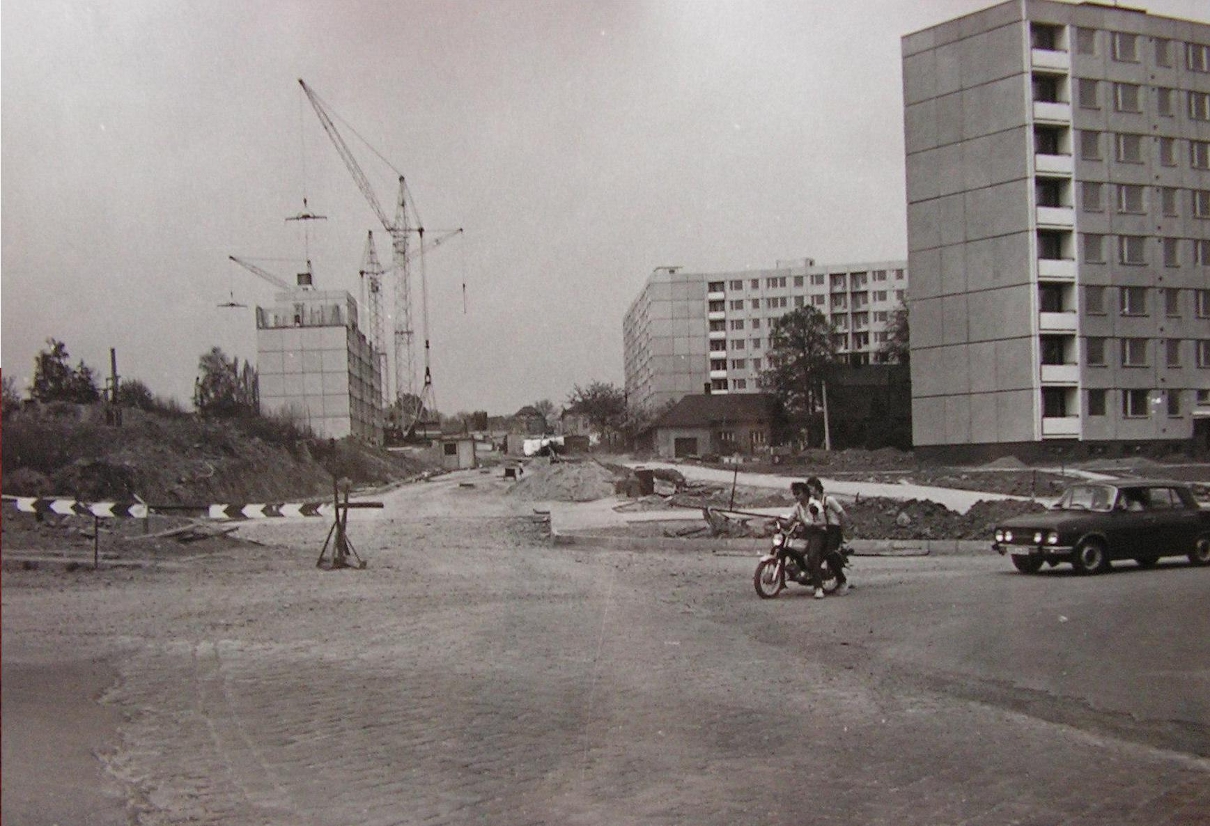 Předmostí by Přerov, development in construction, May 1984